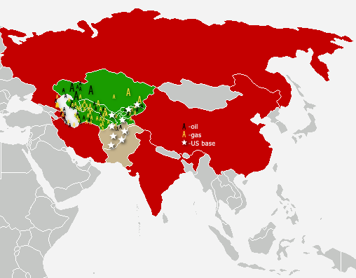 Illustration about the American documentary The Oil Factor: Behind the War on Terror (2005).